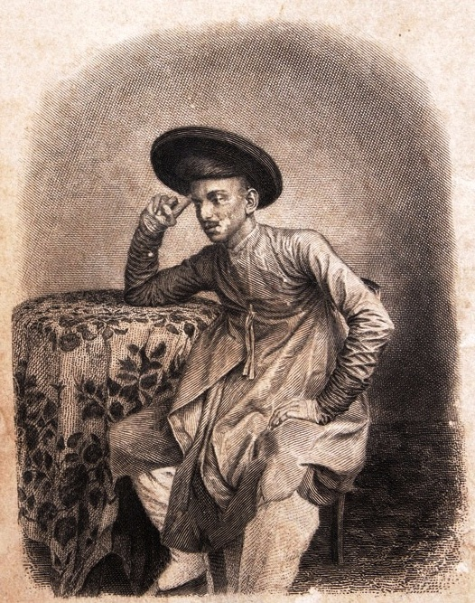 Narmadashankar Dave, popularly known as ‘Narmad’ was a Gujarati writer from British India. He was a poet, dramatist, essayist, lexicographer, critic and reformer. caption:Age, 27. Narmad, Akhare Judai J.(Gujarati) Wood engraving for his publication, after an oil painting by an Indian artist Size: 5.5 x 5 in. (14 x 21.7 cm) ગુજરાતી: નર્મદાશંકર દવે અથવા નર્મદ, તેઓ જાણીતા ગુજરાતી સાહિત્યકાર અને આંદોલનકર્તા છે. ઉમ્મર, ૨૭. નર્મદ, આખરે જુદાઈ જ. માપ:૫.૫ x ૫ ઇંચ. (૧૪ x ૨૧.૭ સેમી)